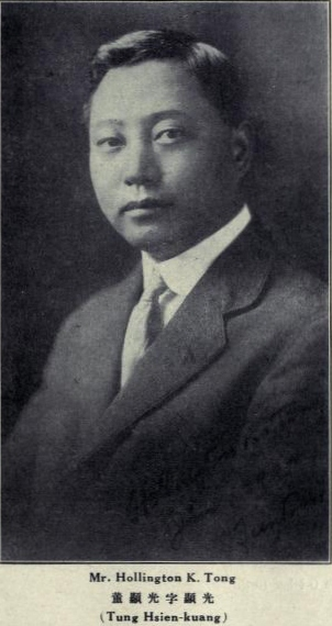 Dong Xianguang (Tung Hsien-kuang; Hollington K. Tong) (1887 - 1971)